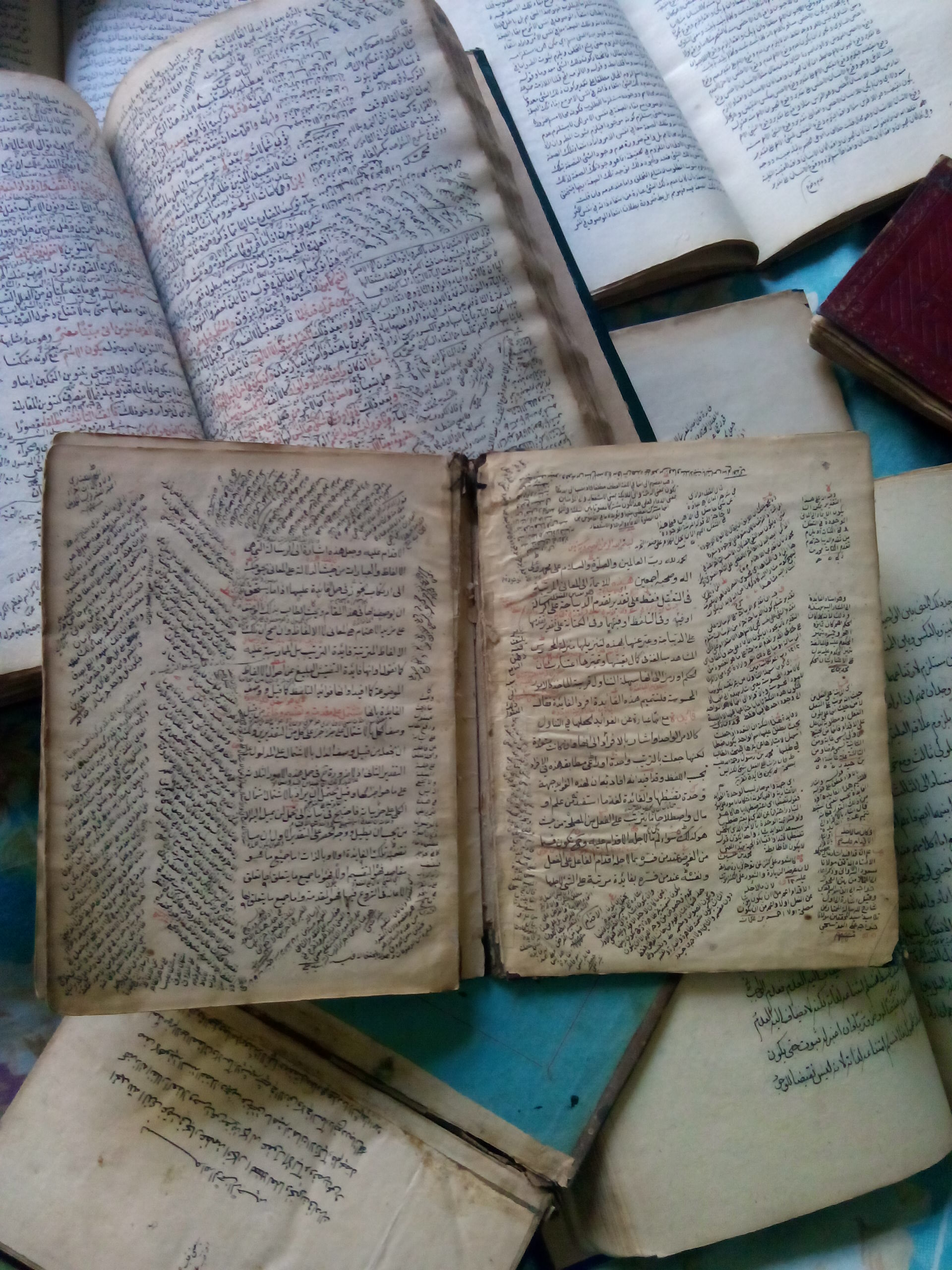 This is a Collection of Arabic manuscripts handwritten by Qasim Effendi Al-Mufti (1790-1900)